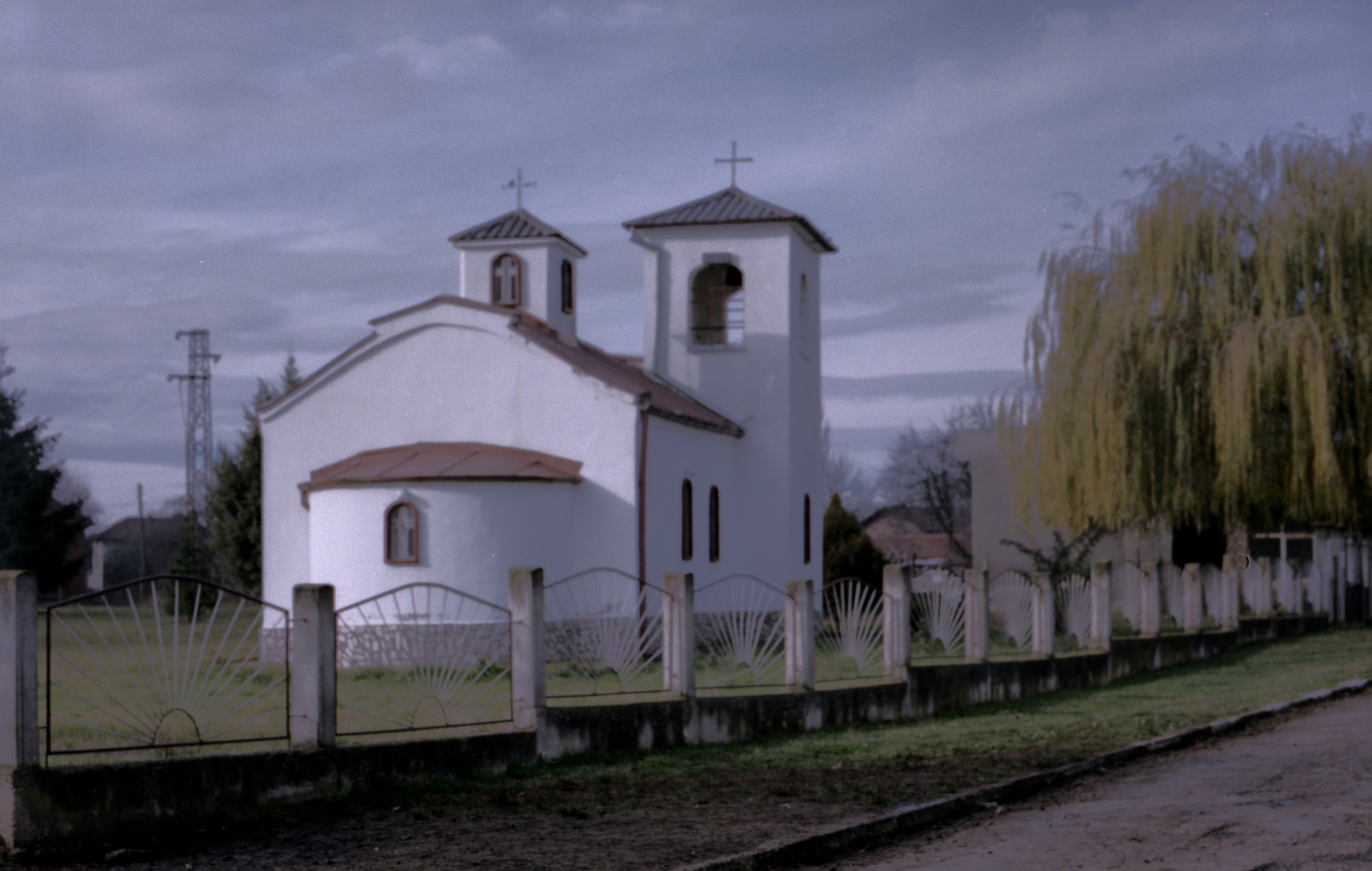 hram Sveti Dimitar - Breste- Balgariya